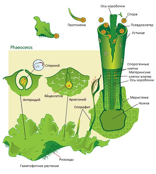 Life cycle and structures of hornwort (in russian)